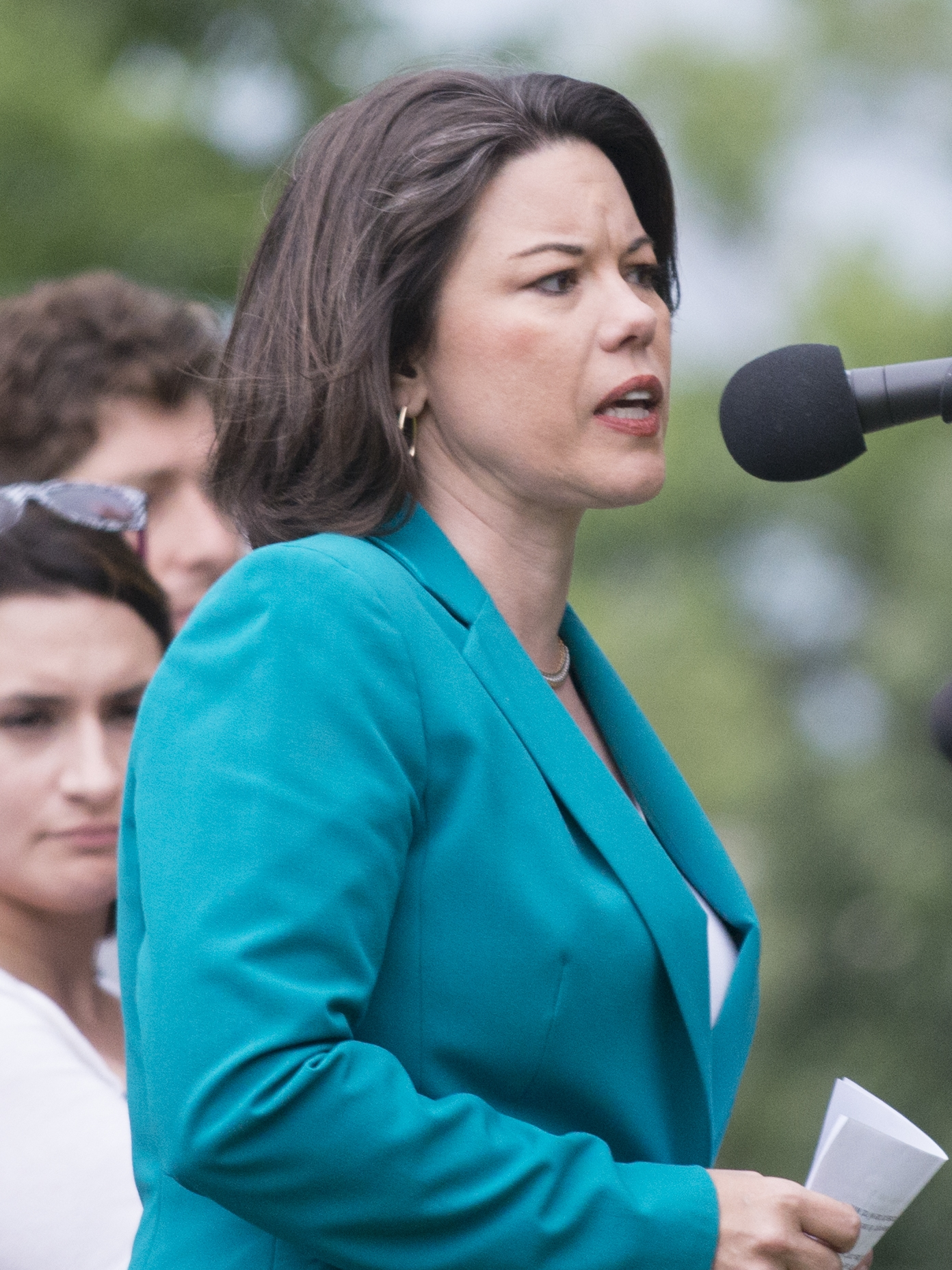 A photograph of Angie Craig speaking at a memorial for the Pulse night club shooting.